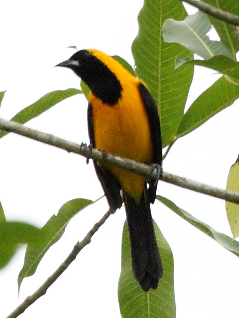 Yellow-backed Oriole (Icterus chrysater). Taken in Panama.